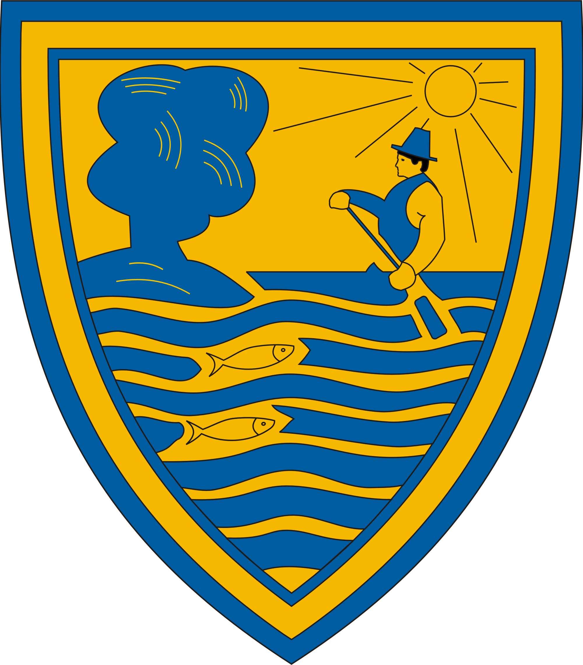 Coat of arms of Bogyiszló, Hungary